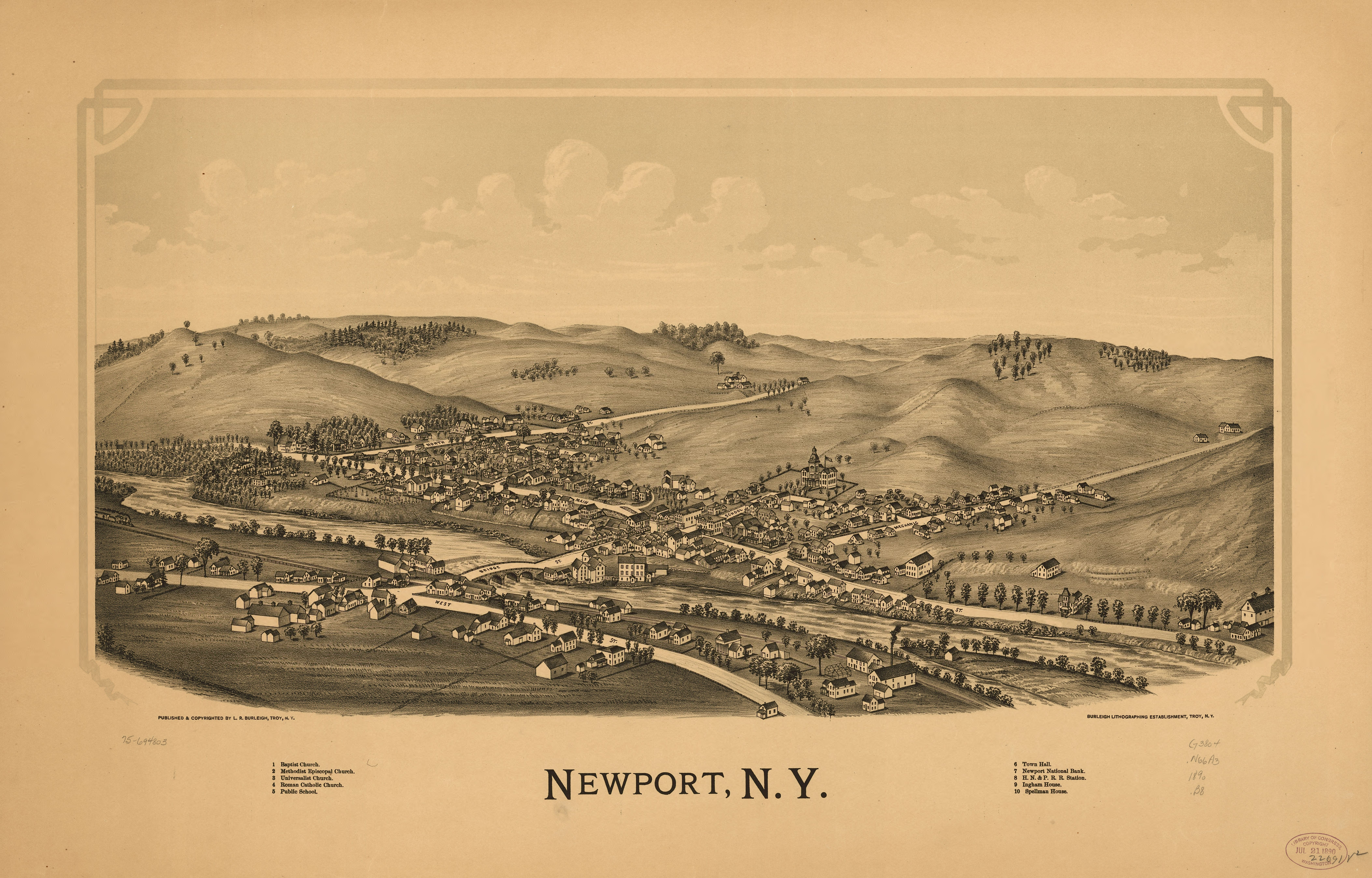 Perspective map not drawn to scale. Bird's-eye-view. LC Panoramic maps (2nd ed.), 594 Available also through the Library of Congress Web site as a raster image. Indexed for points of interest. AACR2: 100; 710/1